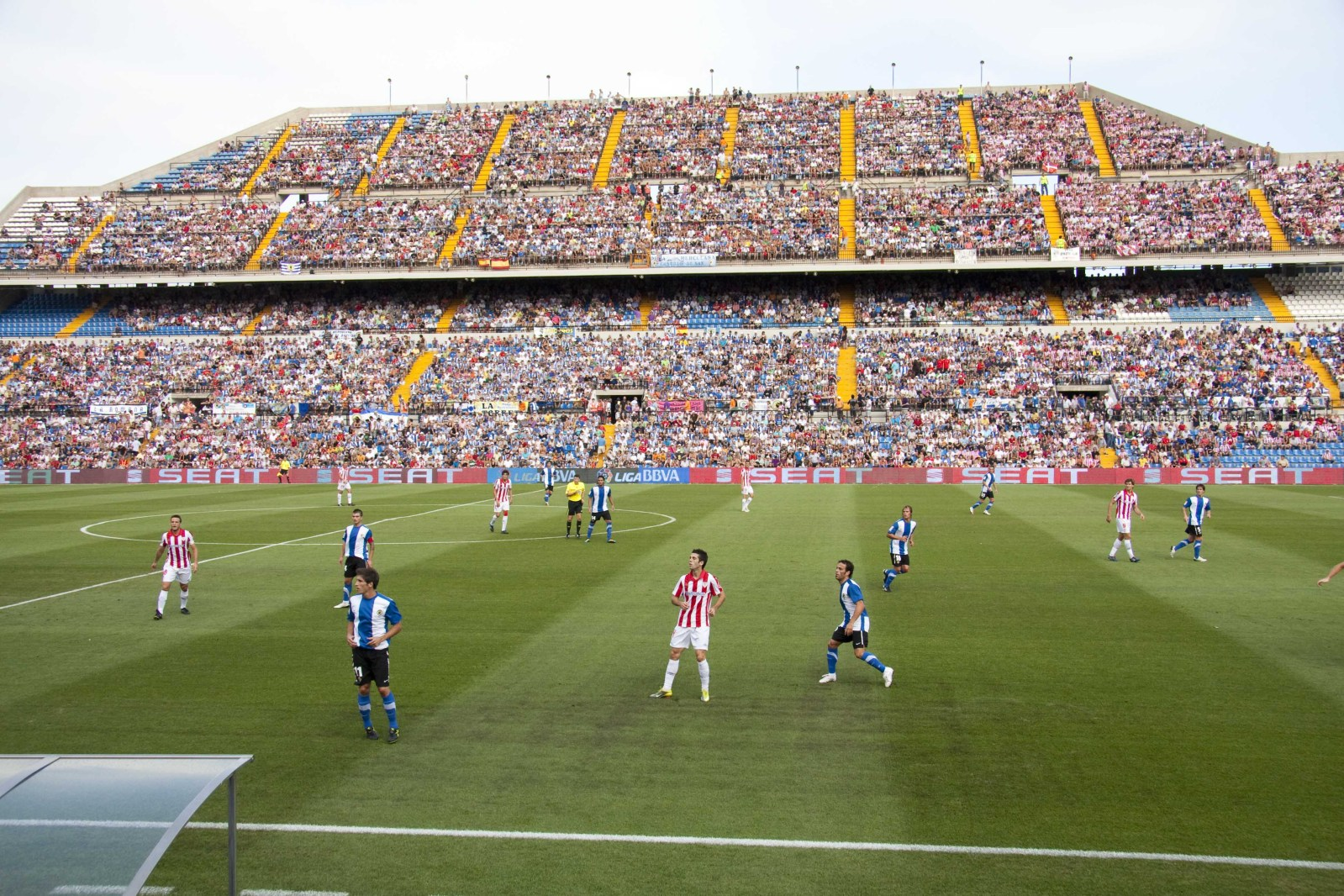 José Rico Pérez stadium during the game, Hércules-Athletic Bilbao for Round 1 of the 2010/11 season.